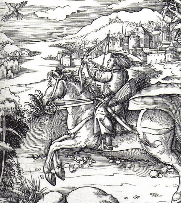 Young prince Maximilian hunting for birds as a horsed archer, it was depicted in the so-called "Weißkunig" (part of the Triumphal Arch by Albrecht Dürer and his pupils)